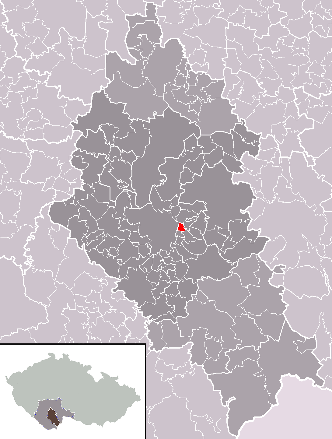 Location of Vráto municipality within České Budějovice District and administrative area of České Budějovice as a Municipality with Extended Competence.